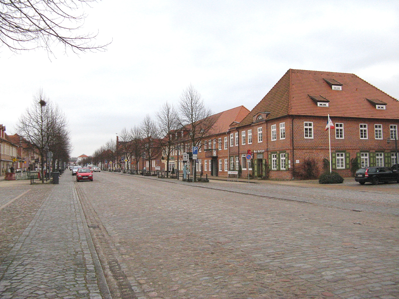 Street "Schlossstraße" in Ludwigslust, Germany